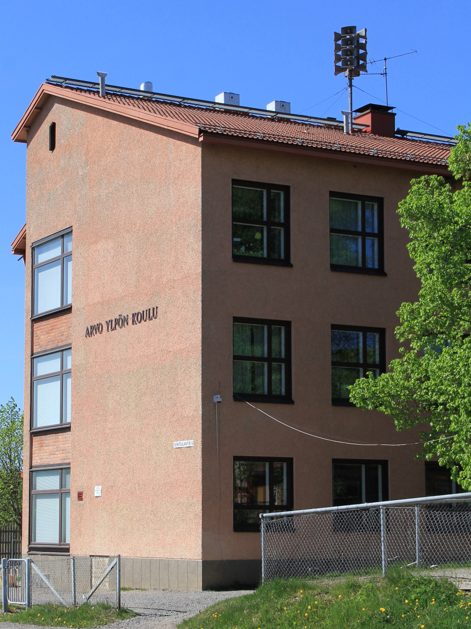 Arvo Ylppö school, Toijala, Akaa, Finland. - Main building.